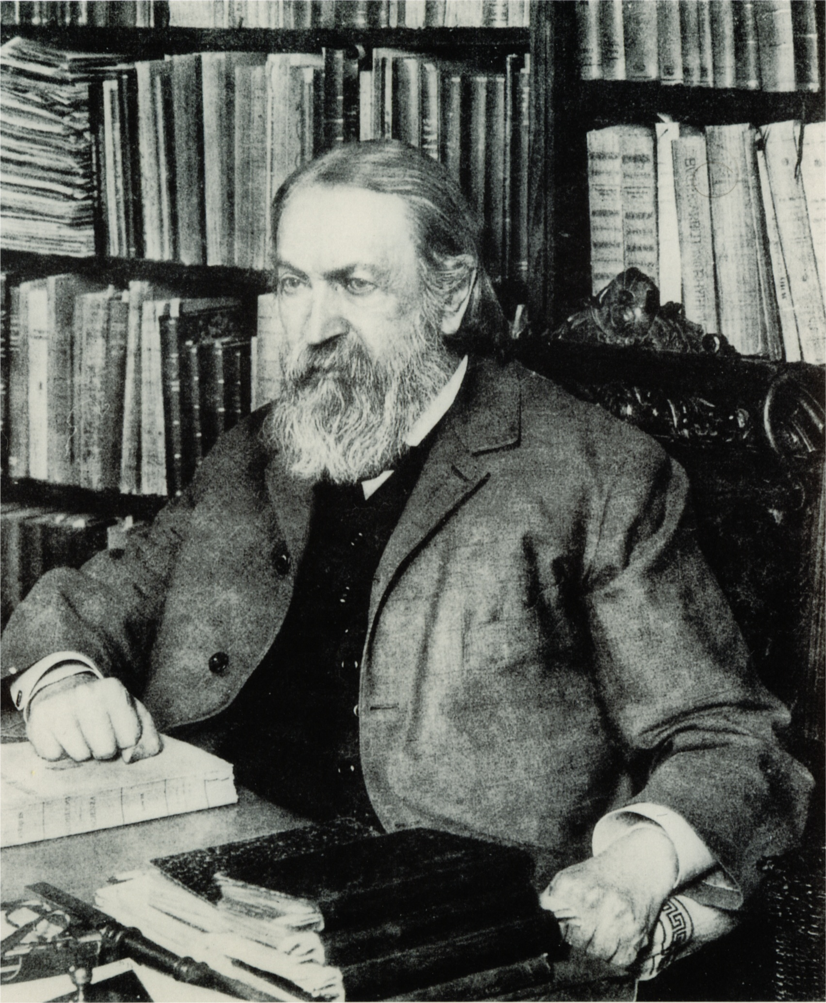 The Austrian physicist and philosopher Ernst Mach